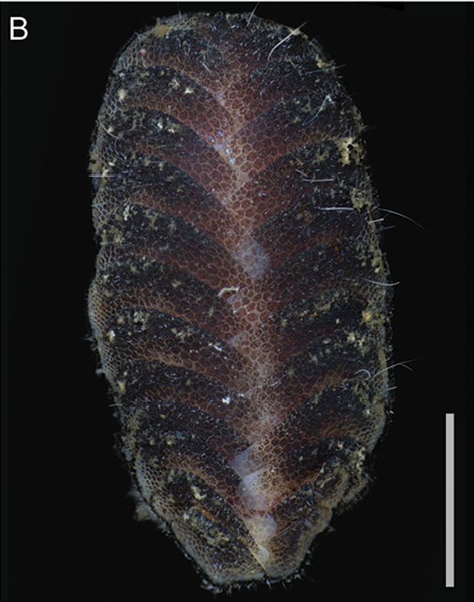 Figure 5; Scale bars represent 5 mm. Thermiphione risensis (SIO-BIC A6326, was Iphionella risensis), dorsal.